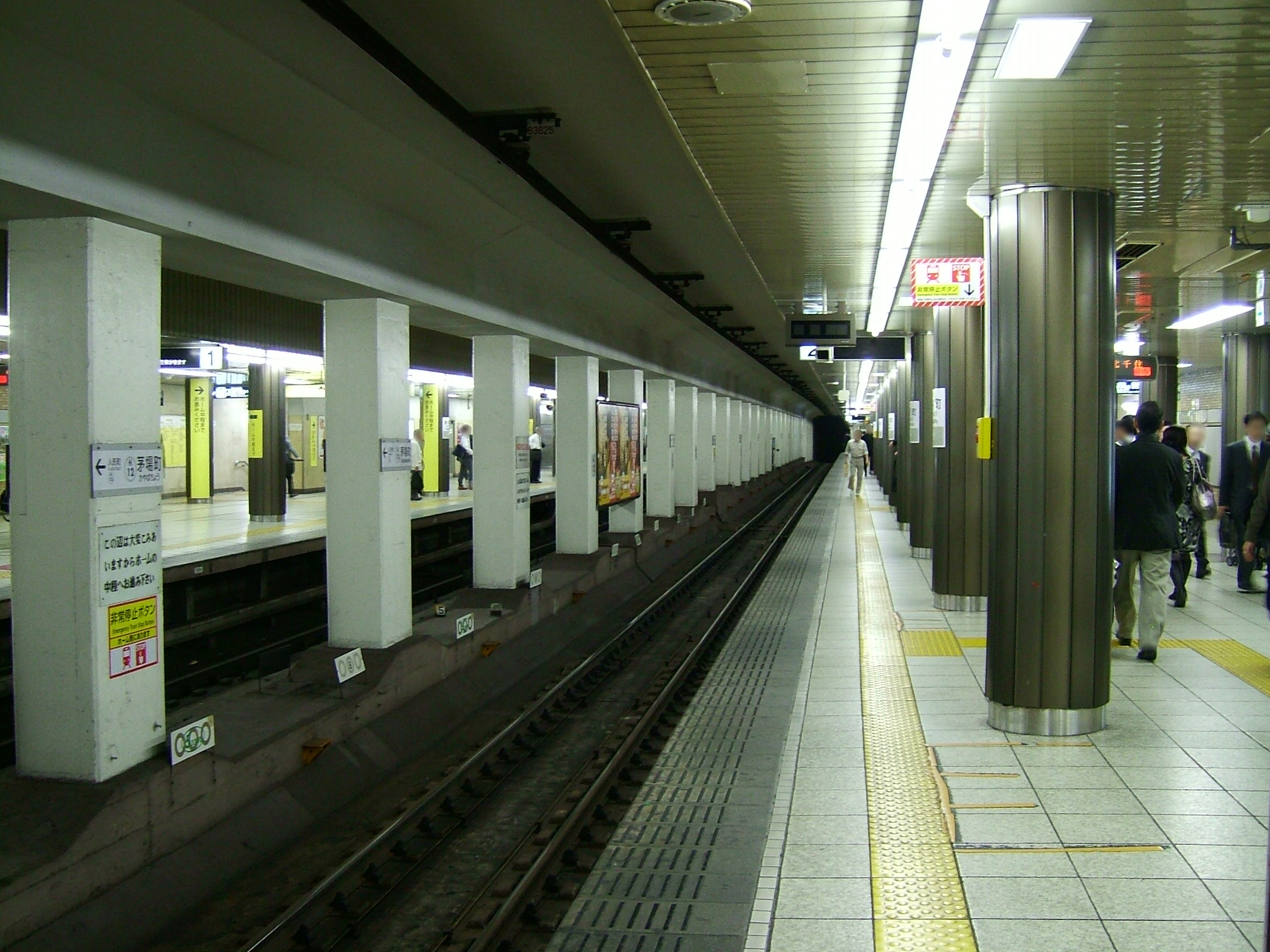 The platforms at Kayabachō Station on the Tokyo Metro Hibiya Line in Chūō city, Tokyo, Japan